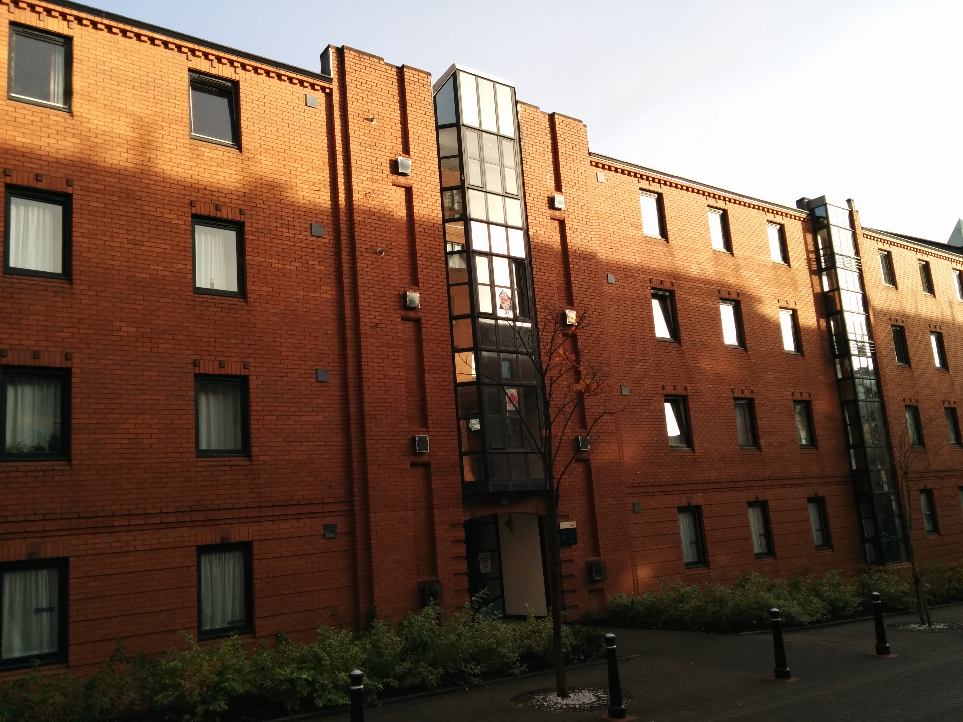 Picture of Forbes Hall (Strathclyde)